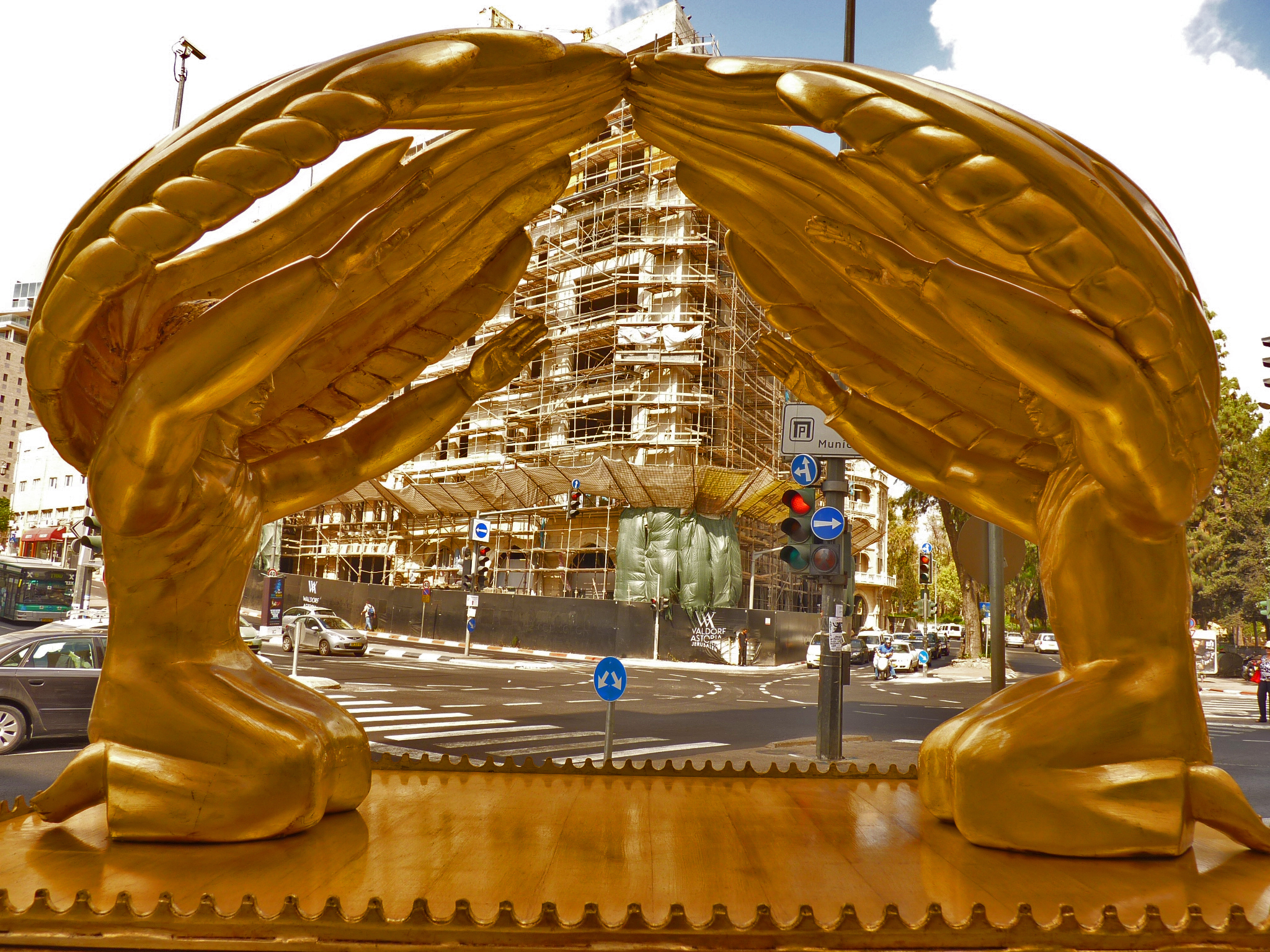 Jerusalem, corner of Shlomo ha-Melekh & Yitshak Kariv Streets - Sculpture by Sam Philipe - Ark of the Covenant Published by Jerusalem